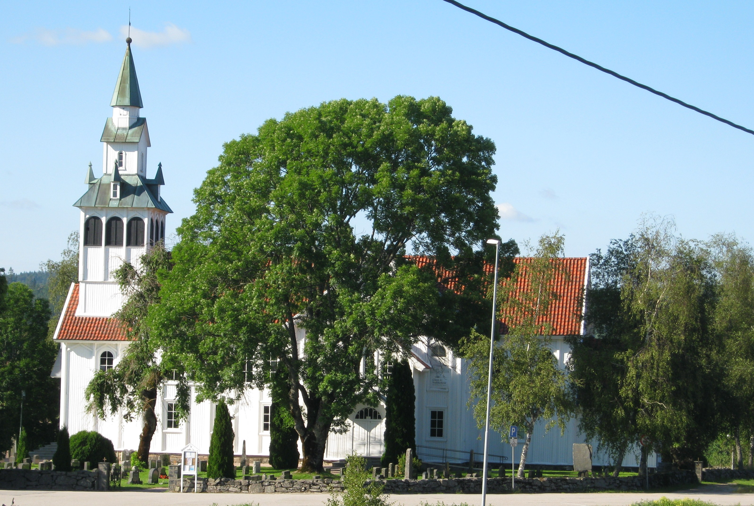 Birkenes Church, Norway